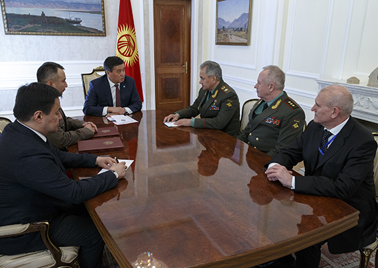 Министр обороны России отметил высокий уровень сотрудничества между военными ведомствами России и Киргизии